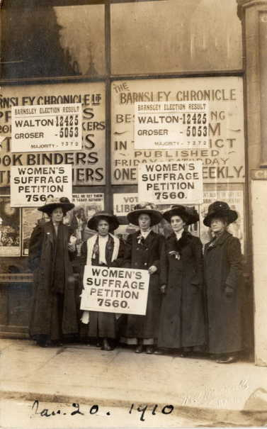 Celia Wray(third from left) - leading member of the Barnsley Women's Suffrage Society